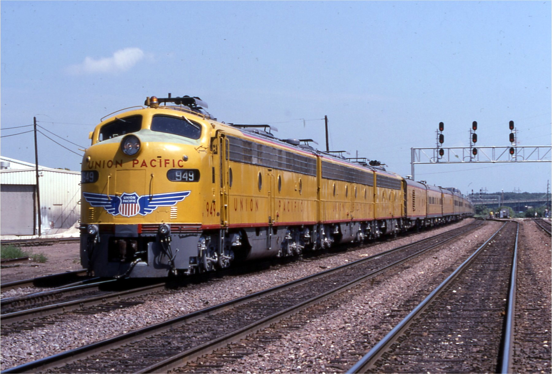 Union Pacific ran a special excursion train from Chicago to Clinton, Iowa, perhaps to raise awareness of their recent acquisition of the 147 year old Chicago and North Western railroad.